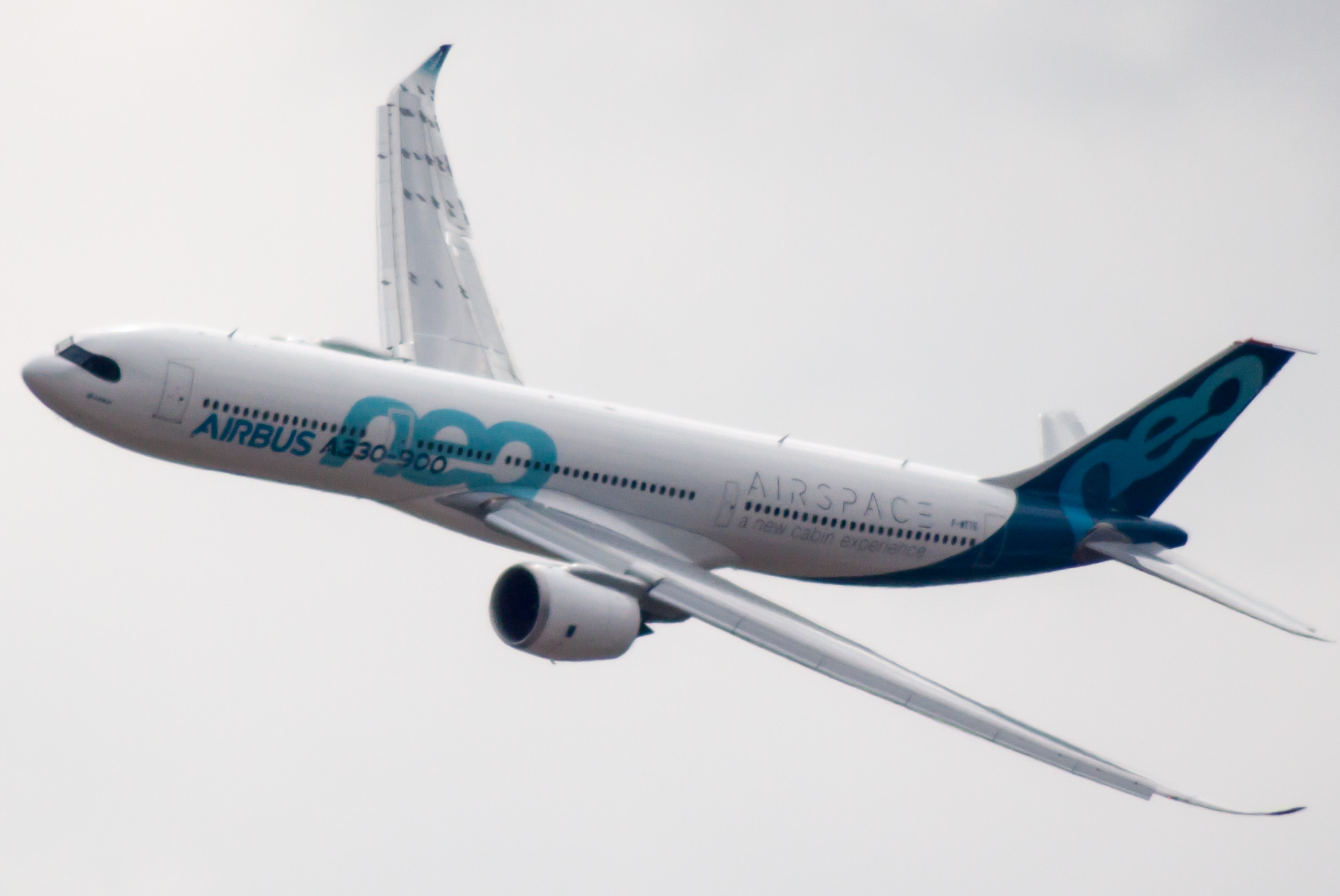 Farnborough Airshow 2018.